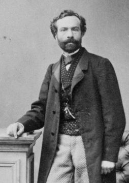 French painter, Narcisse Berchère (1819-1891) (cropped from the original)